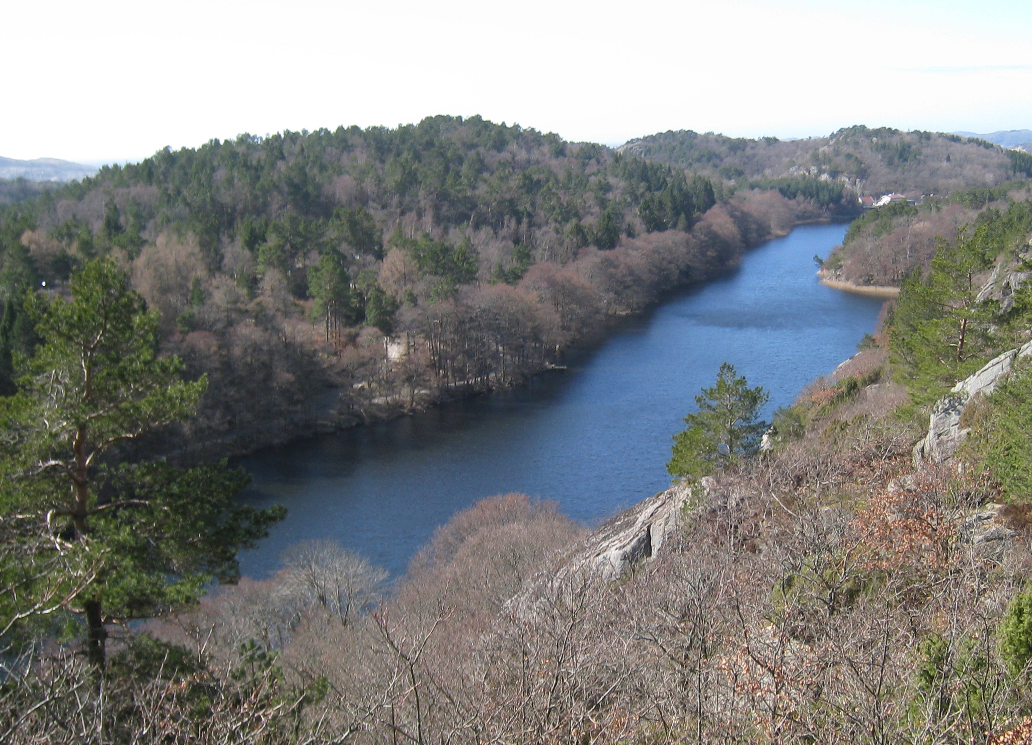 Kigevannet in Mandal, Norway